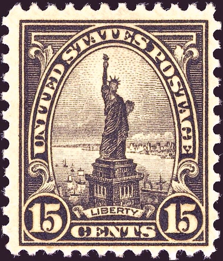 US Postage stamp, 1922 Statue of Liberty issue, 1922